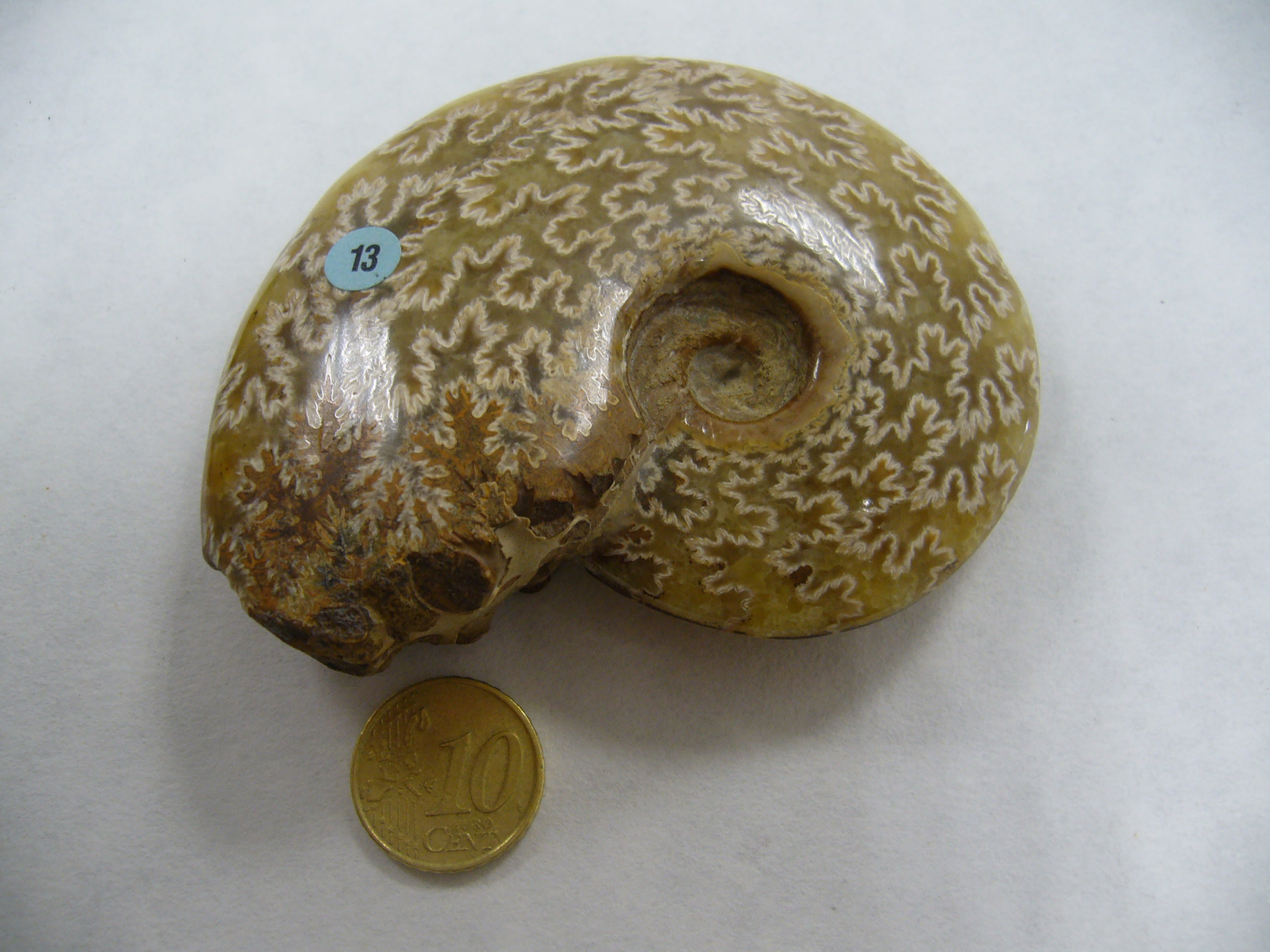 Cleoniceras sp. fossil (Early Cretaceous) founded in Madagascar, in a laboratory of practices of the Faculty of Sciences of the University of Corunna.